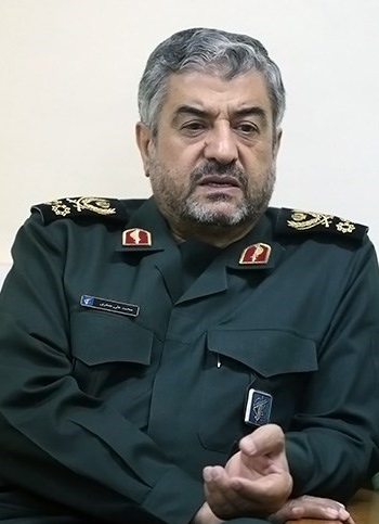 AGIR commander-in-chief, Mohammad Ali Jafari